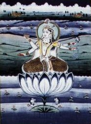 Tripura Sundari, also called Lalita, a Hindu goddess